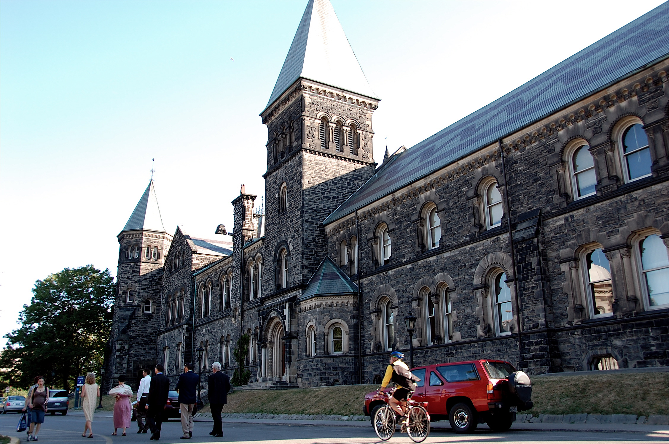 Eastern wing of University College, University of Toronto